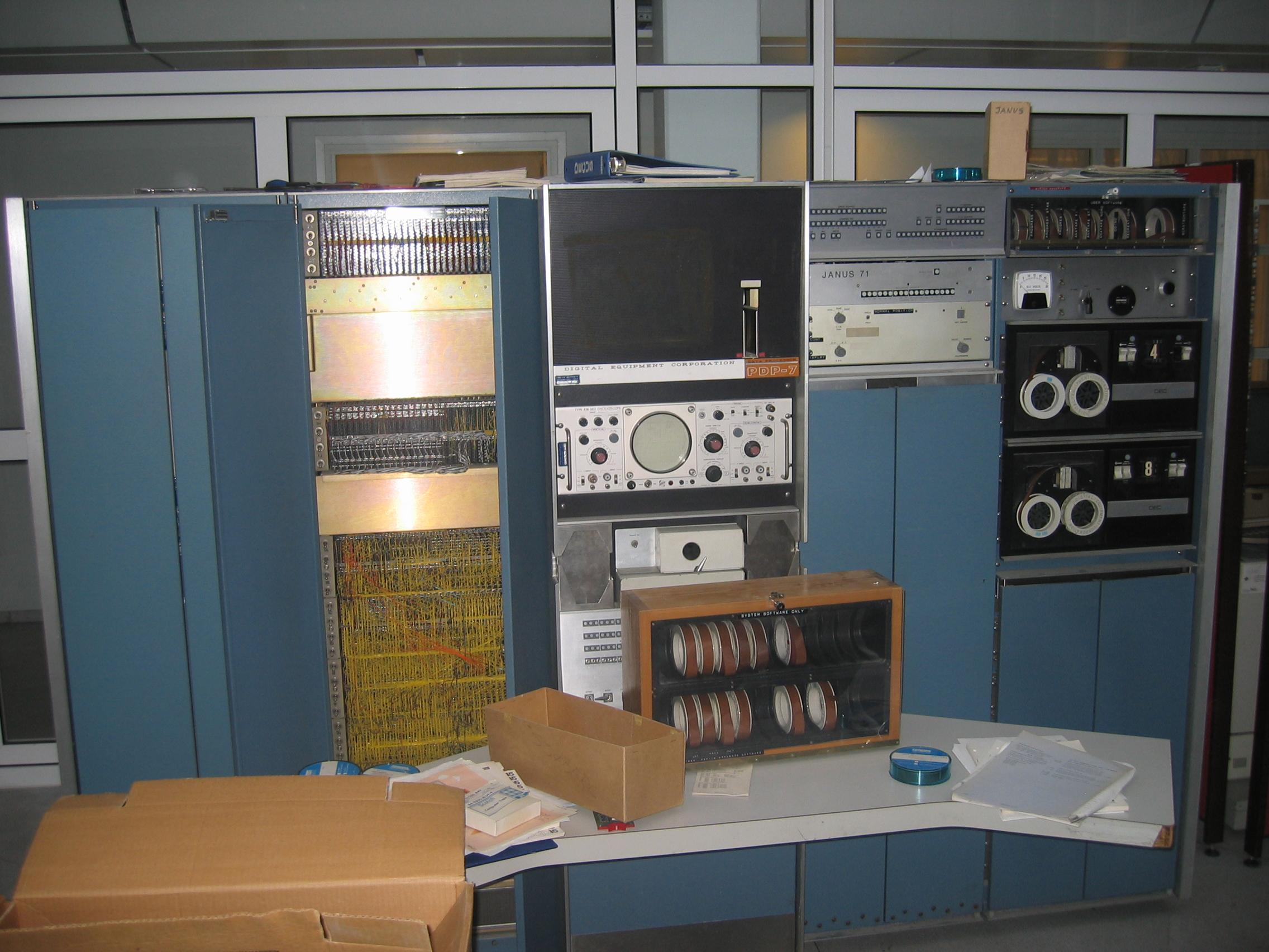 A modified PDP-7 under restoration in Oslo, Norway Photo taken by me, Matias Fjeld (matiashf), on 2004-12-09.